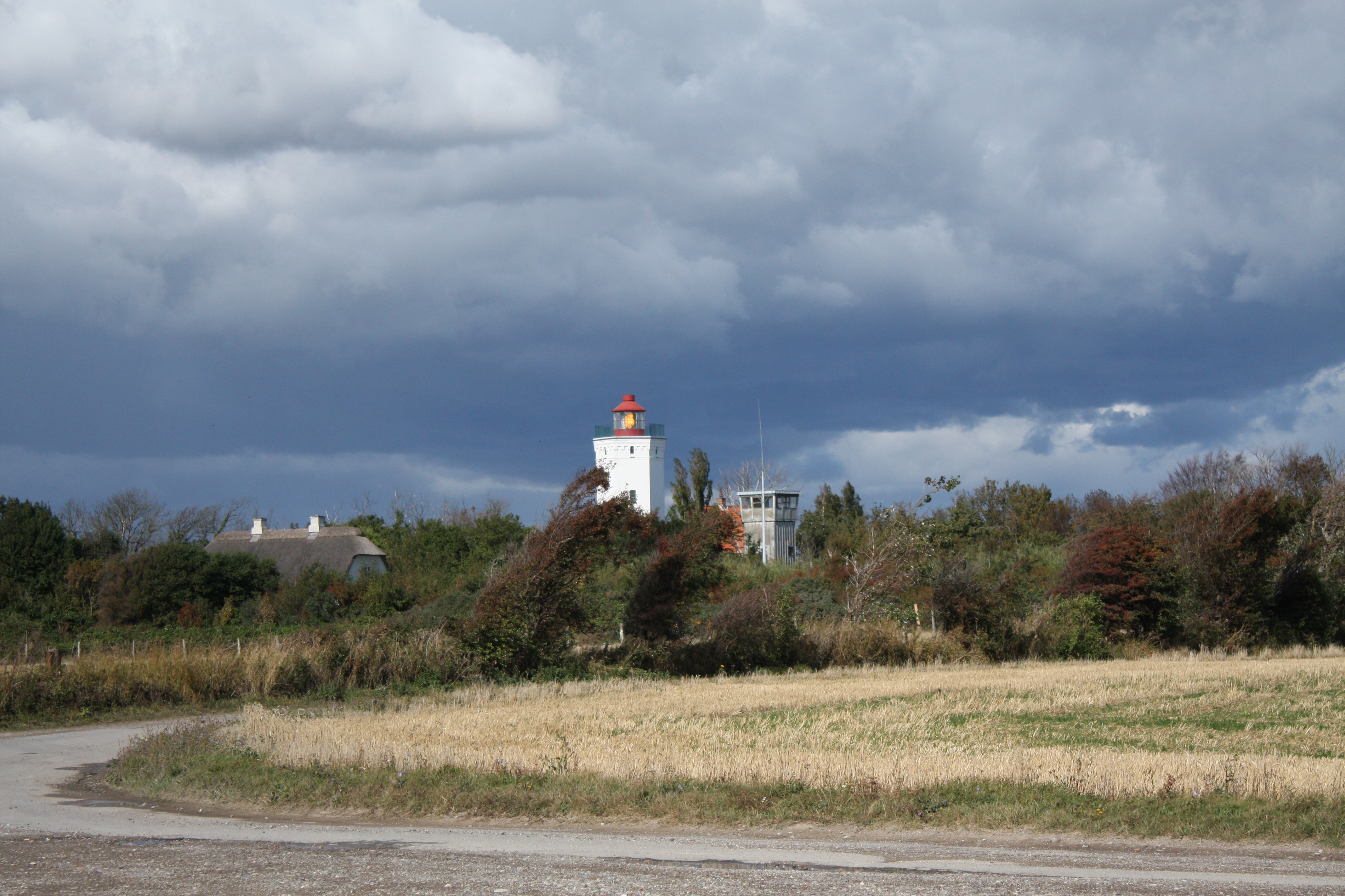 Gedser fyr